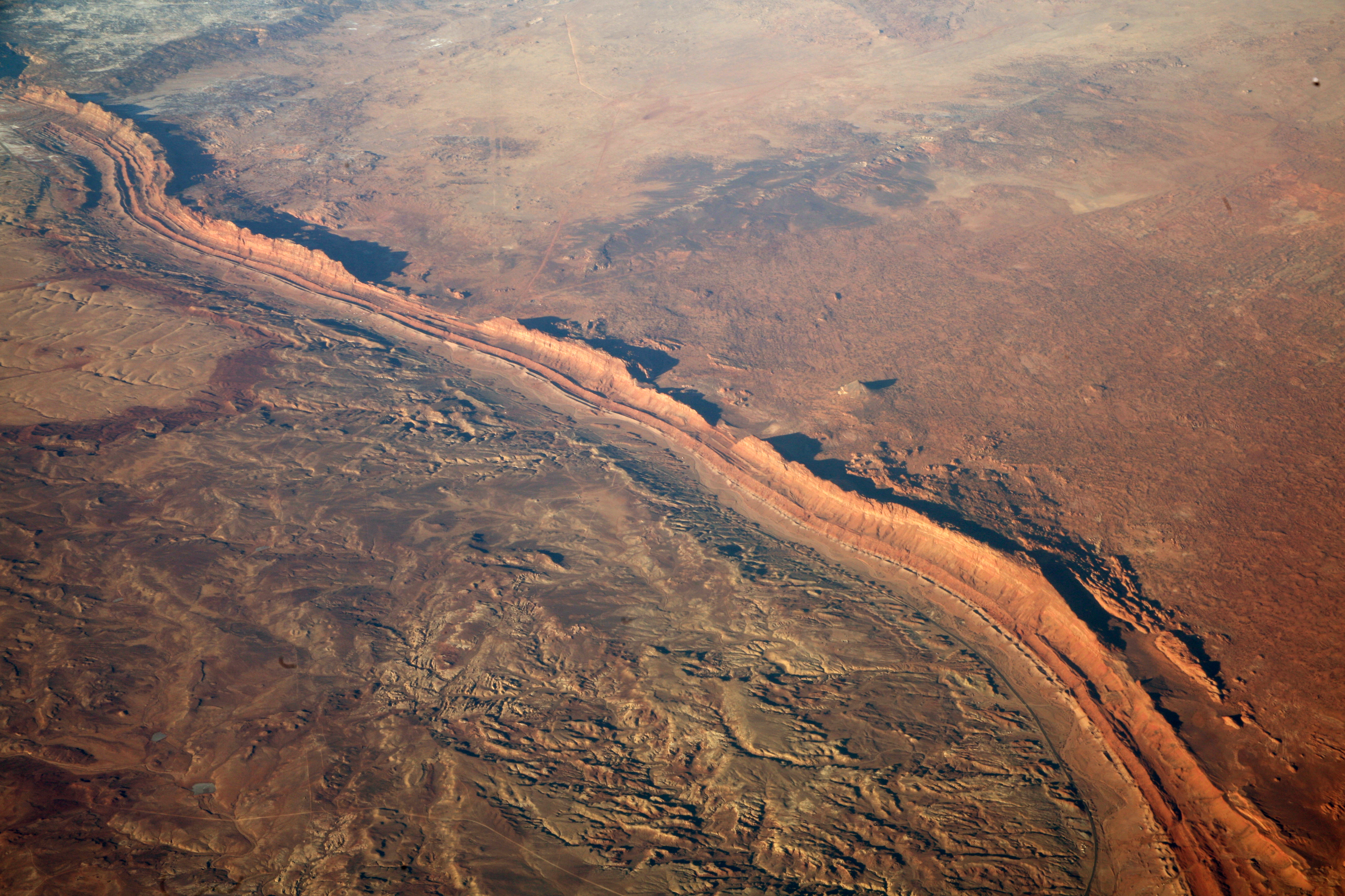 Photograph of the Echo Cliffs in northern Arizona from the air